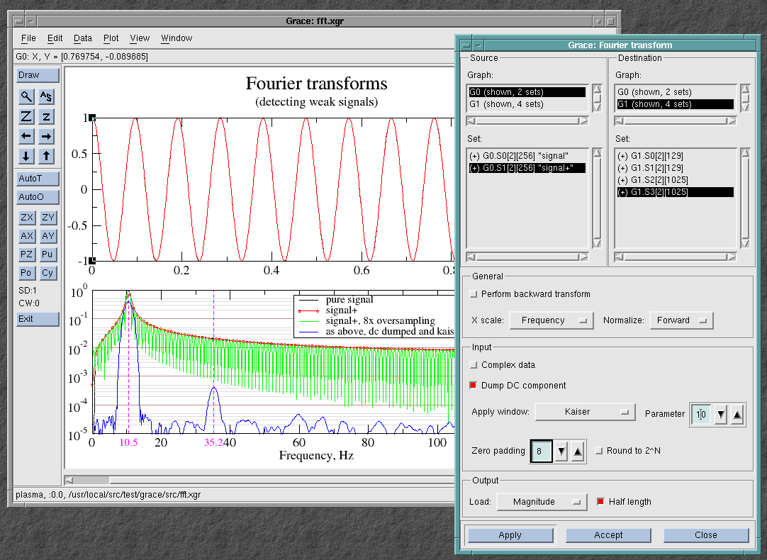 Screenshot of the preview version of Grace-6